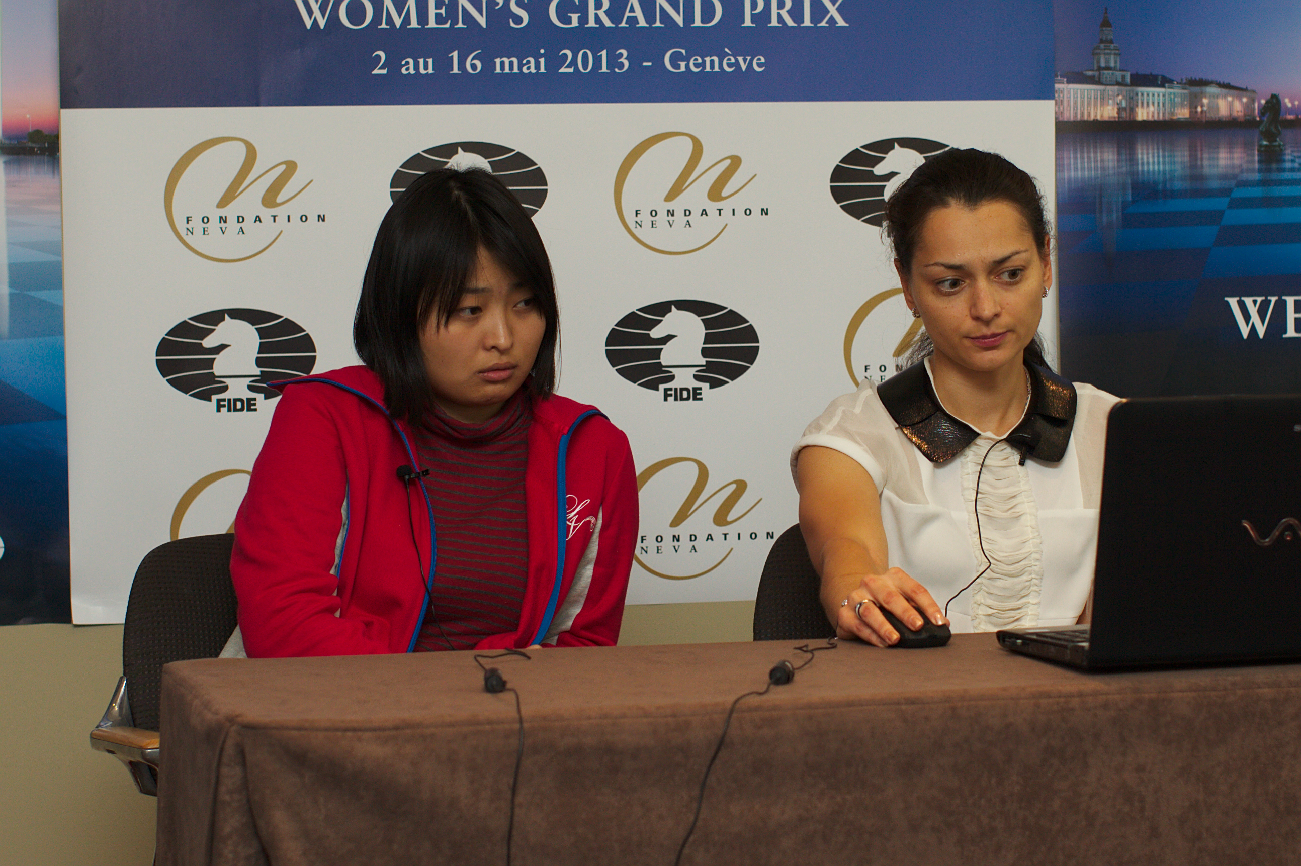 Ju Wenjun and Alexandra Kosteniuk during the press conference